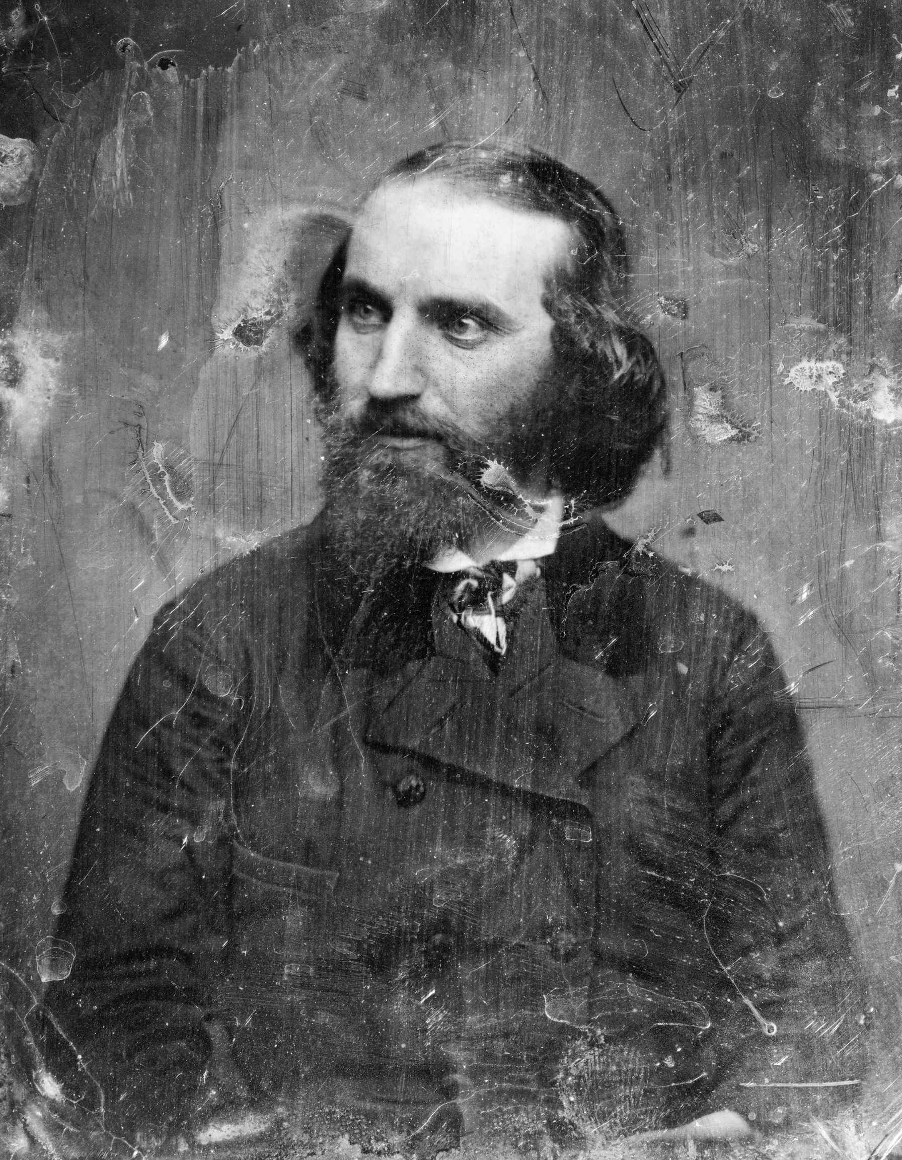 Caleb Lyon, head-and shoulders portrait, three-quarters to the left, with beard . Independent Congressman from New York, 1853-1855; Governor of Idaho Territory, 1864-1865.